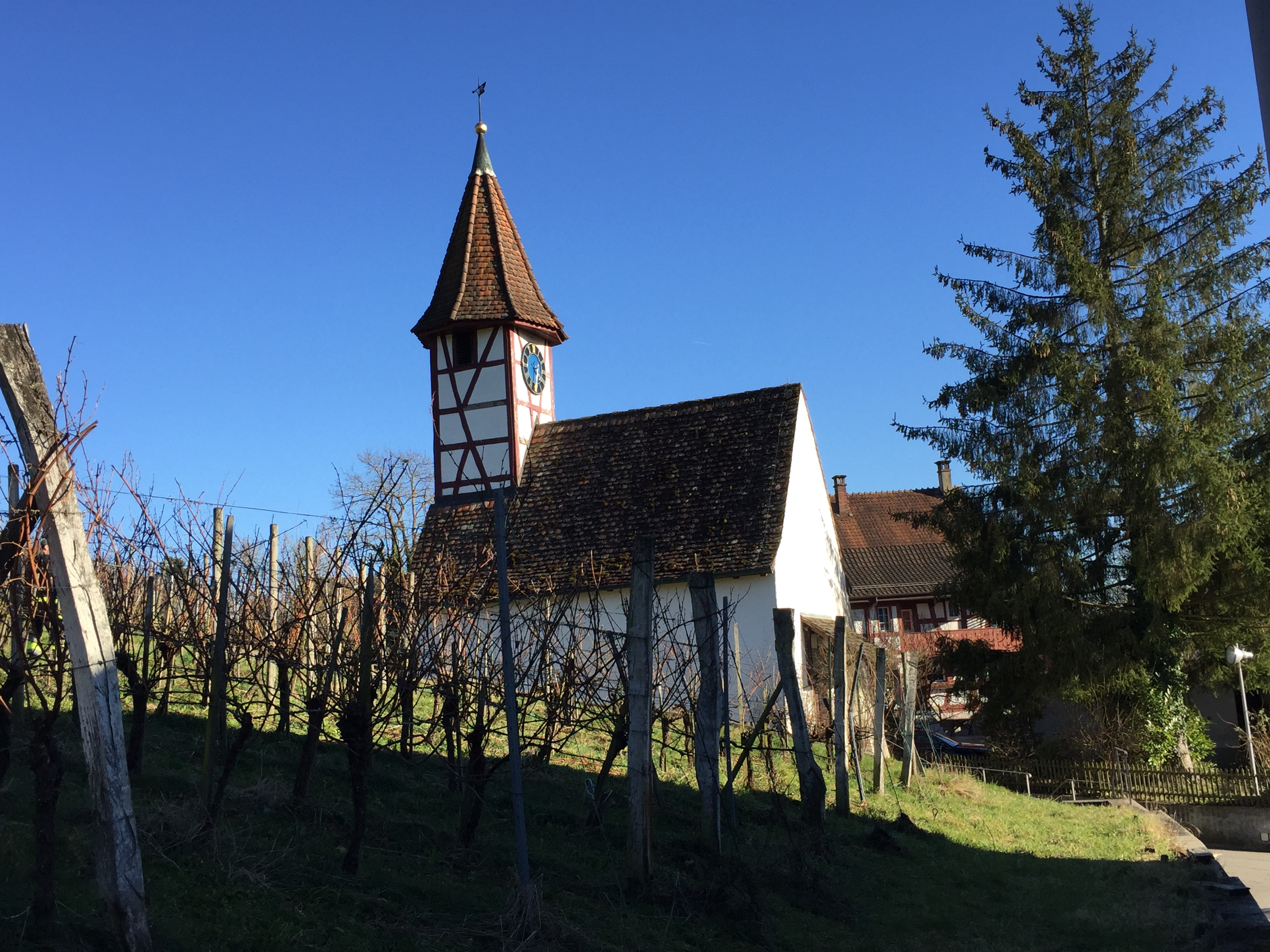 Kapelle